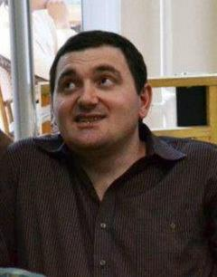 Zaal Jalaghonia